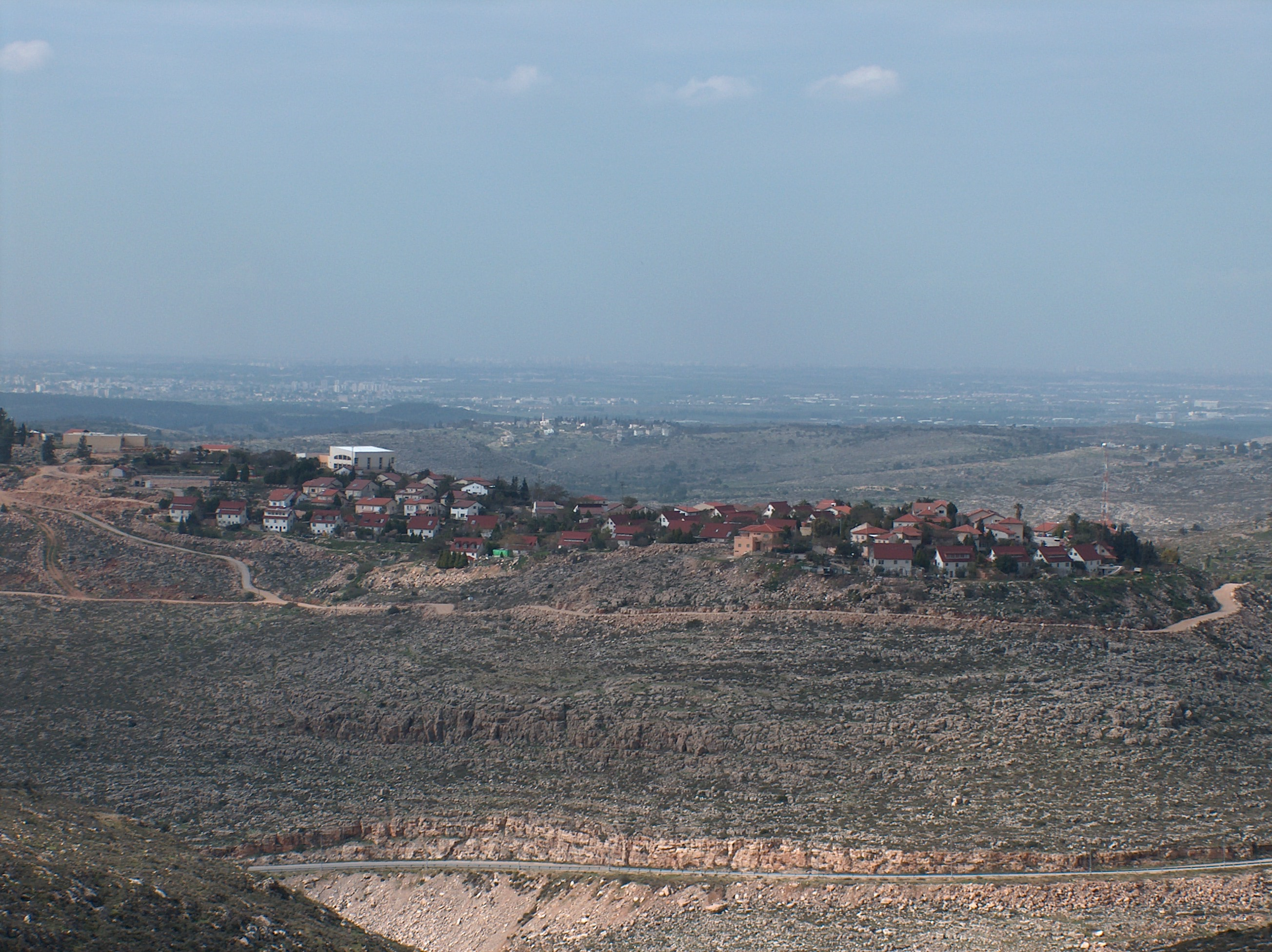 Nili, Israeli settlement in West Bank, taken from Naaleh. Behind is Qibya